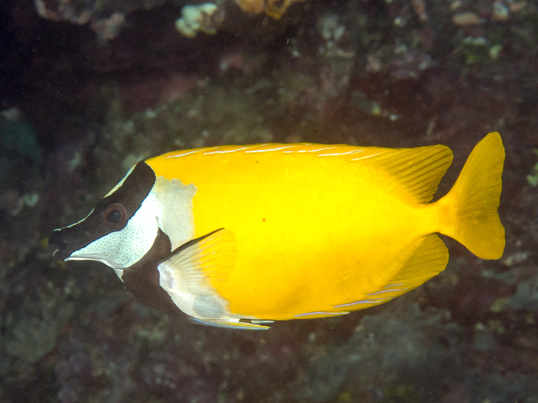 Morotai, Indonesia - Foxface rabbitfish (Siganus vulpinus)